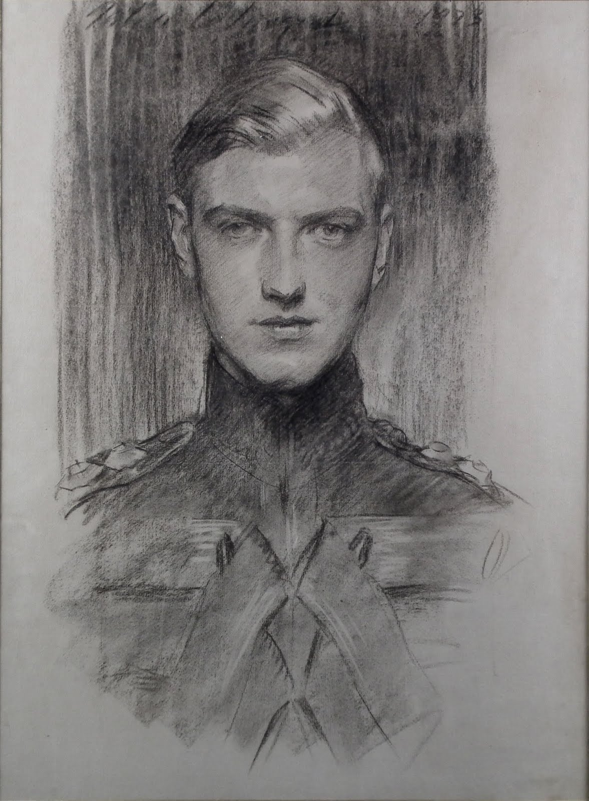 Charcoal drawing - Shoulder length portrait of Robert Gould Shaw III in uniform (thought to be The Blues and Royals), 22ins x 16.5ins, signed along the top and dated 1923. Gift of lady Nancy Astor to Mr. Robert Shaw's partner, Alfred Edward Goodey.